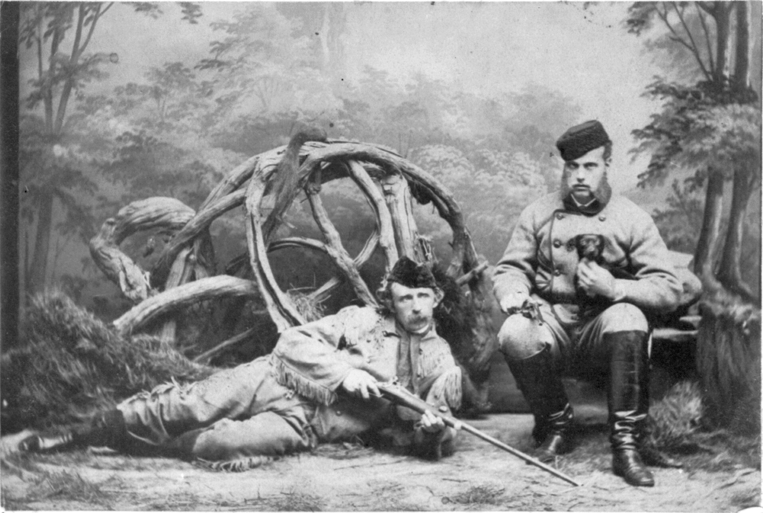 Grand Duke Alexei Alexandrovitch Romanov and General Custer in Topeka, at the end of the buffalo hunt.